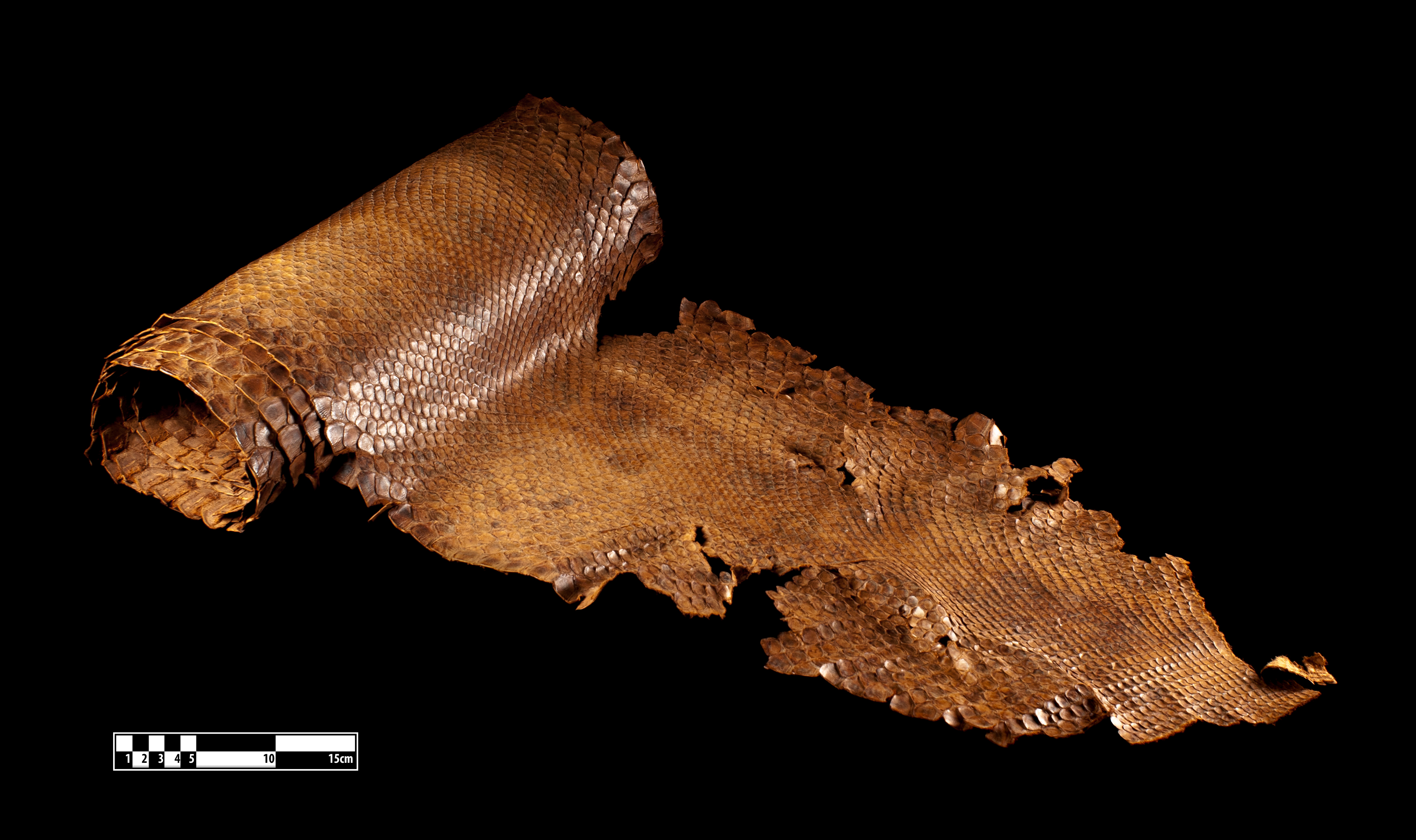 Snake skin. Eunectes murinus Taxidermy of a snake skin on display at the Museum of Veterinary Anatomy FMVZ USP. This file was published as the result of a partnership between the Museum of Veterinary Anatomy FMVZ USP, the RIDC NeuroMat and the Wikimedia Community User Group Brasil. This GLAM project is reported. Photography: Museum of Veterinary Anatomy FMVZ USP. Author: Wagner Souza e Silva.